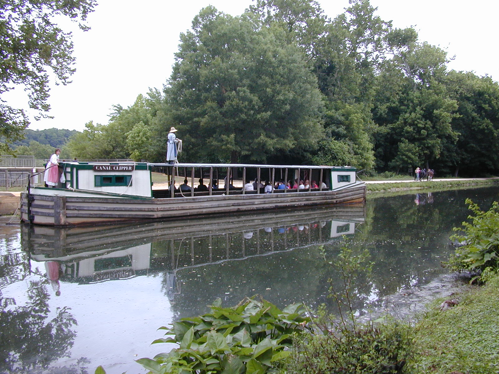 Canal boat on the C&O Canal, near Great Falls.